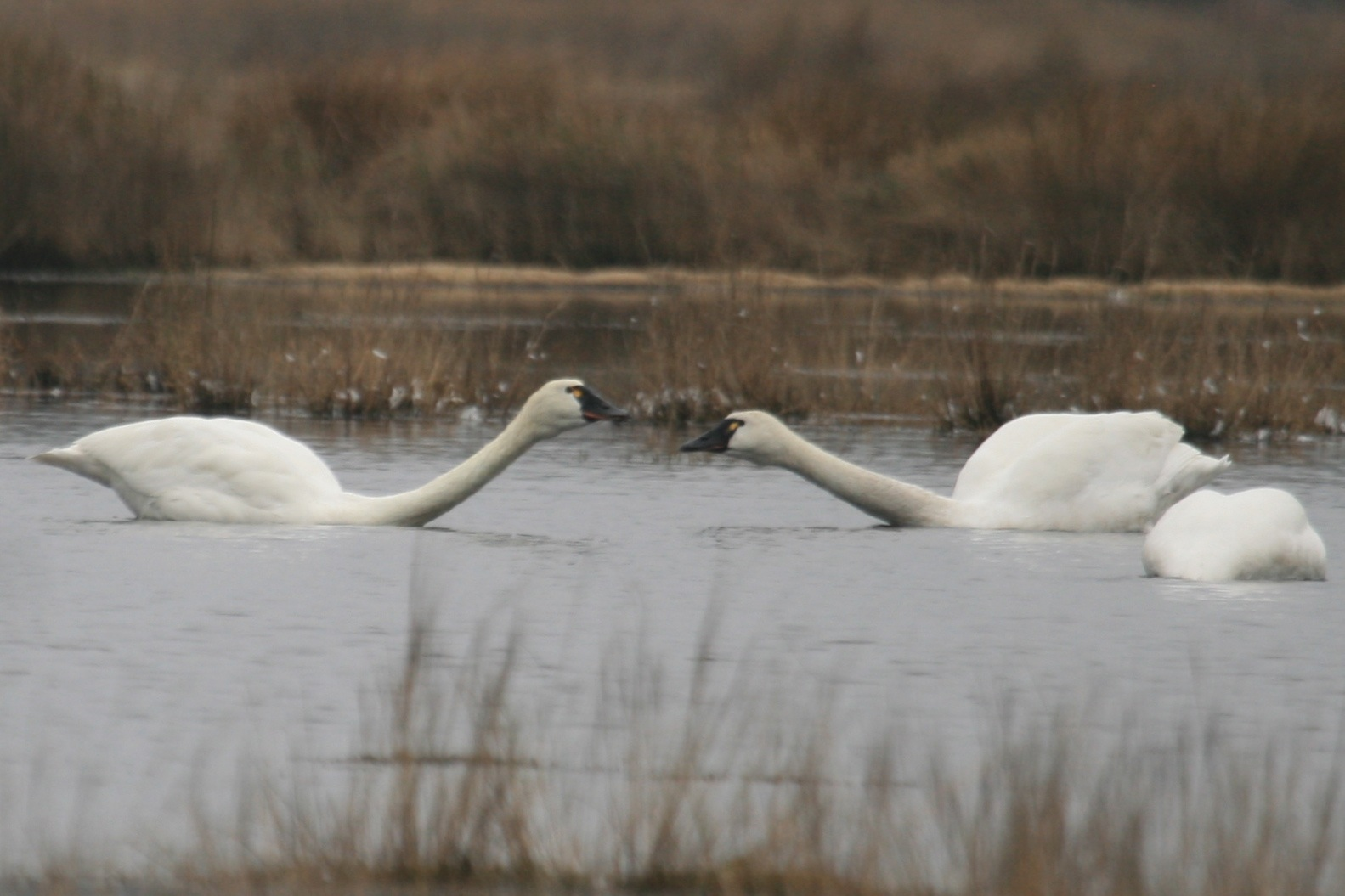 Tundra Swan, Cygnus columbianus, on Bear Island South Carolina